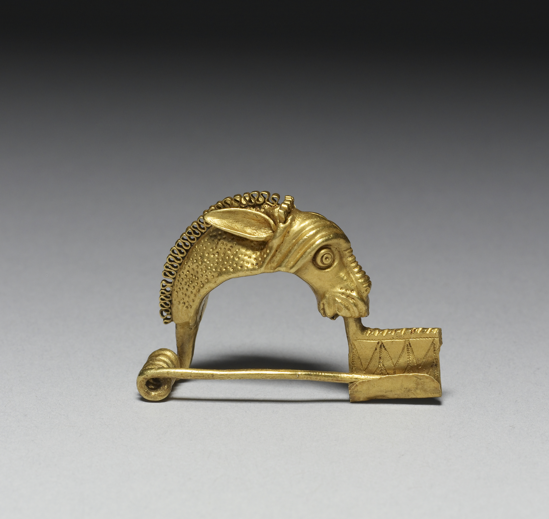 This fibula is shaped like the head and neck of a horse. Dots suggest the texture of the coat and looped filigree is used for the mane. While the form of the pin was inspired by Roman examples, the subject matter, the horse, relects the importance of these animals to the Huns.